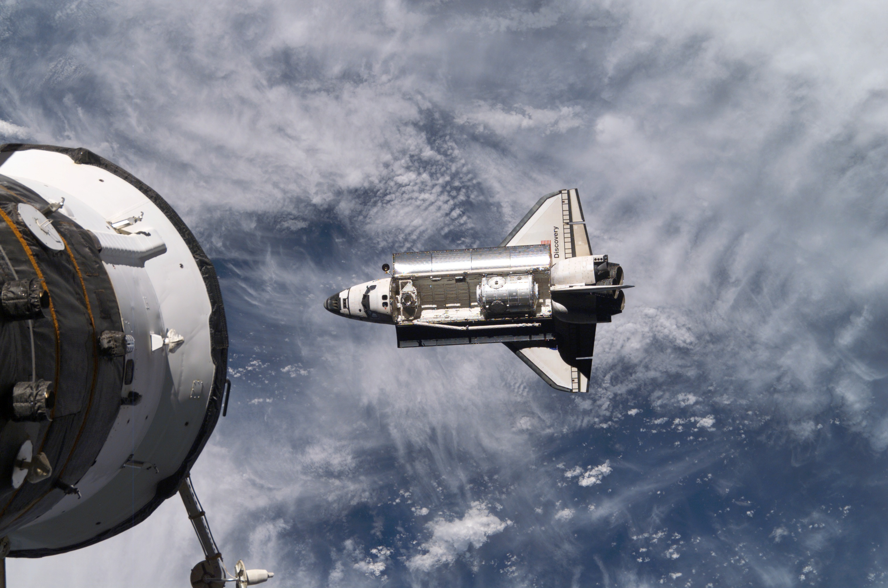 Backdropped by a blue and white Earth, Space Shuttle Discovery approaches the International Space Station during STS-120 rendezvous and docking operations. Docking occurred at 7:40 a.m. (CDT) on Oct. 25, 2007. The Harmony node is visible in Discovery's cargo bay. A Russian spacecraft, docked to the station, is visible at left.